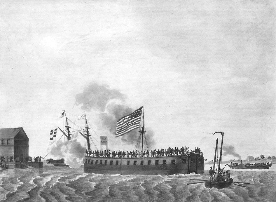 The American 1814 warship Demologos (also called Fulton I). 19th century lithography. This was the world's first steam powered warship known also as Fulton Steam Frigate, the Steam Battery, and Fulton the First. Robert Fulton designed it as a catamaran with the paddlewheel placed between the hulls so that it would be protected from cannon fire. It was 150 feet long, 60 feet wide, with an armor belt of timber 5 feet thick protecting its gundeck.